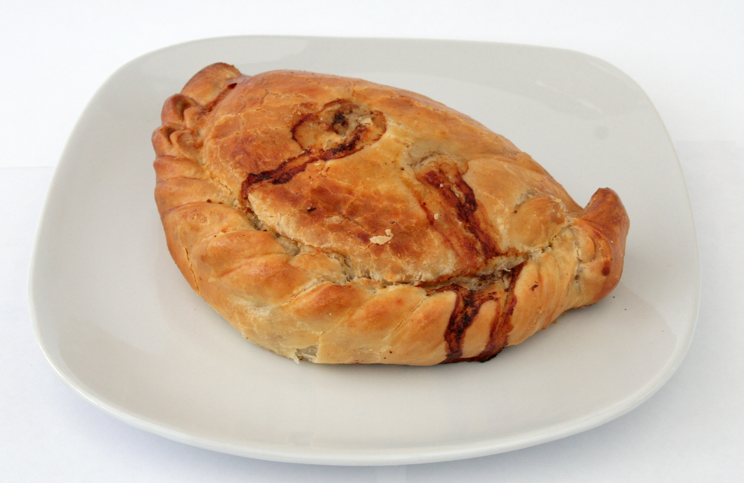 A Cornish Pasty made by Warrens